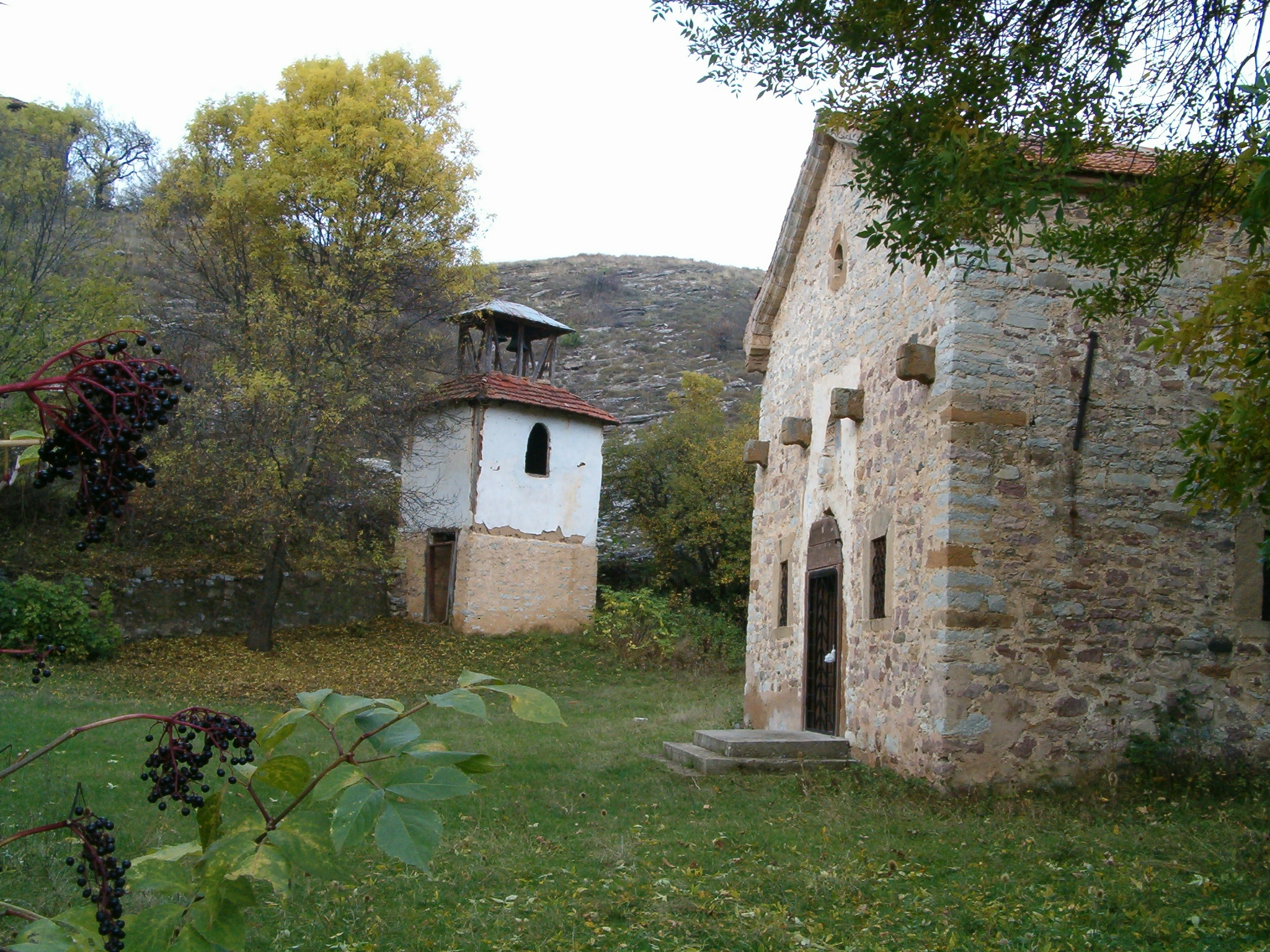 Church in the village of Komshtitsa, Bulgaria